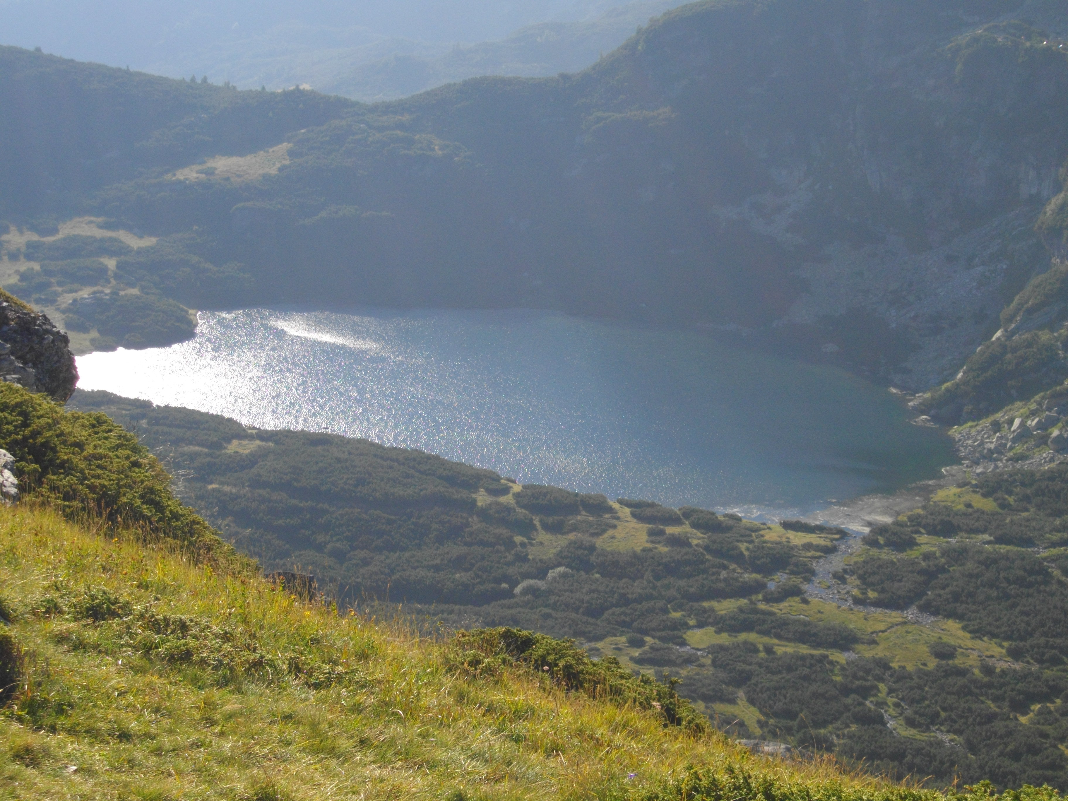 The Lower Lake in Rila